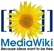 MediaWiki logo by User:Anthere (flower) and User:Eloquence (combination, concept). The flower is Image:Tournesol.png.